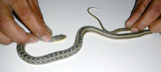 Buff-striped keelback, Amphiesma stolata, Family Colubridinae, Serpentes. The snake laid out for measurement.~It measured 52 cms. Image taken on 17 Jul 06 in Binnaguri, Duars, northern West Bengal, India by AshLin.